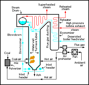 A simple schematic diagram of a typical coal-fired power plant steam generator (boiler) that highlights where the combustion air preheater (APH) is usually located. The diagram is meant to be used in the Wikipedia "Air preheater" article ... and wherever else it might be useful. For simplicity, any radiant section tubes are not shown.